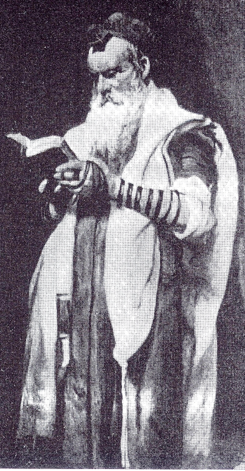 Drawing by Siegfried Laboschin, Joods Historisch Museum